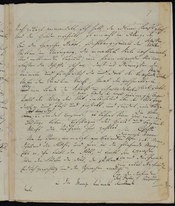 Manuscript of Friedrich Hölderlin: Der Archipelagus, page 7. From Homburg